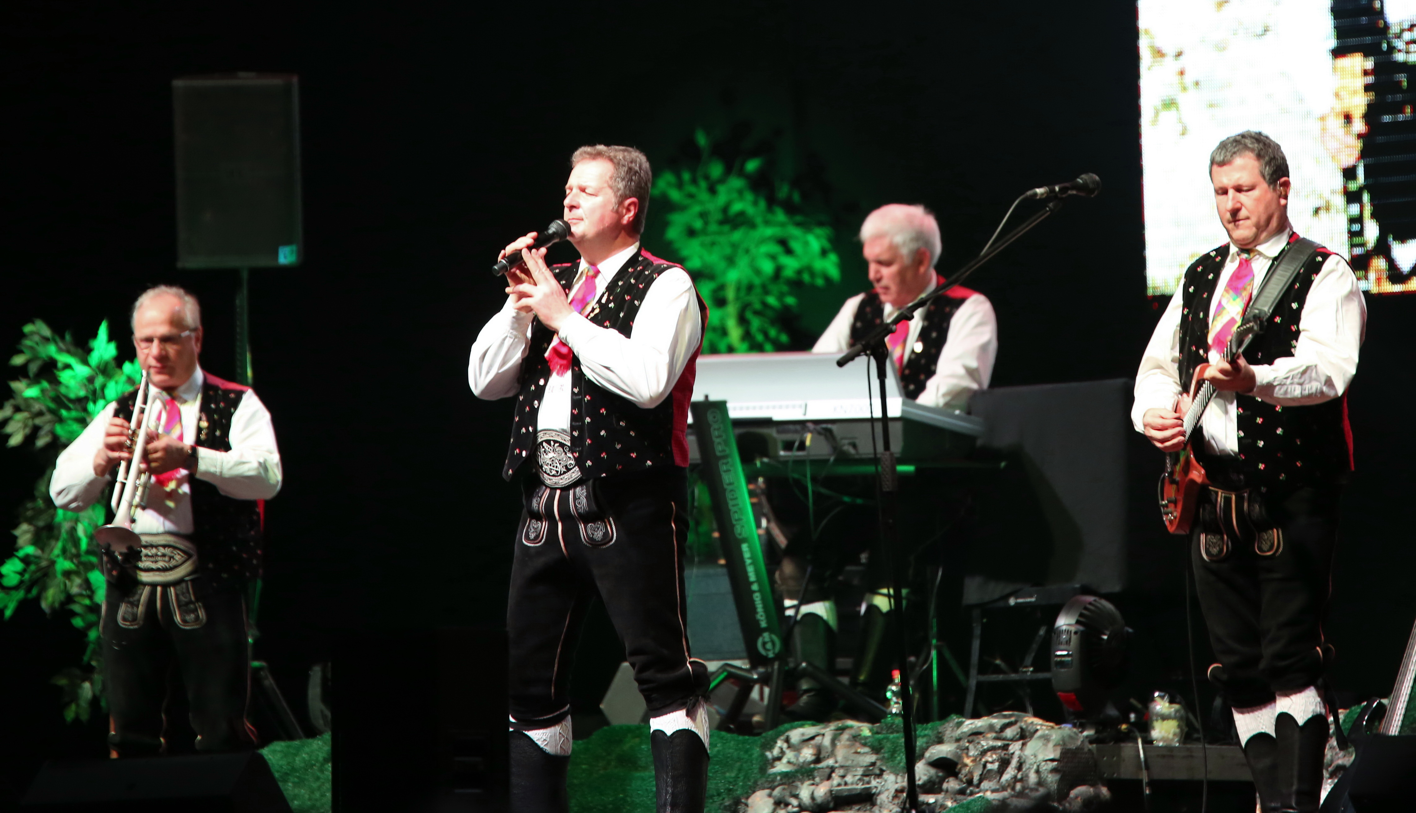 Die Kastelruther Spatzen im März 2016 in der Bigbox Kempten Walter Mauroner, Norbert Rier, Albin Gross und Kurt Dasser Festivalsommer This photo was created with the support of donations to Wikimedia Deutschland in the context of the CPB project "Festival Summer". This file is made available under the Creative Commons CC0 1.0 Universal Public Domain Dedication. The person who associated a work with this deed has dedicated the work to the public domain by waiving all of their rights to the work worldwide under copyright law, including all related and neighboring rights, to the extent allowed by law. You can copy, modify, distribute and perform the work, even for commercial purposes, all without asking permission. Thomas Springer Personality rights warningAlthough this work is freely licensed or in the public domain, the person(s) shown may have rights that legally restrict certain re-uses unless those depicted consent to such uses. In these cases, a model release or other evidence of consent could protect you from infringement claims.